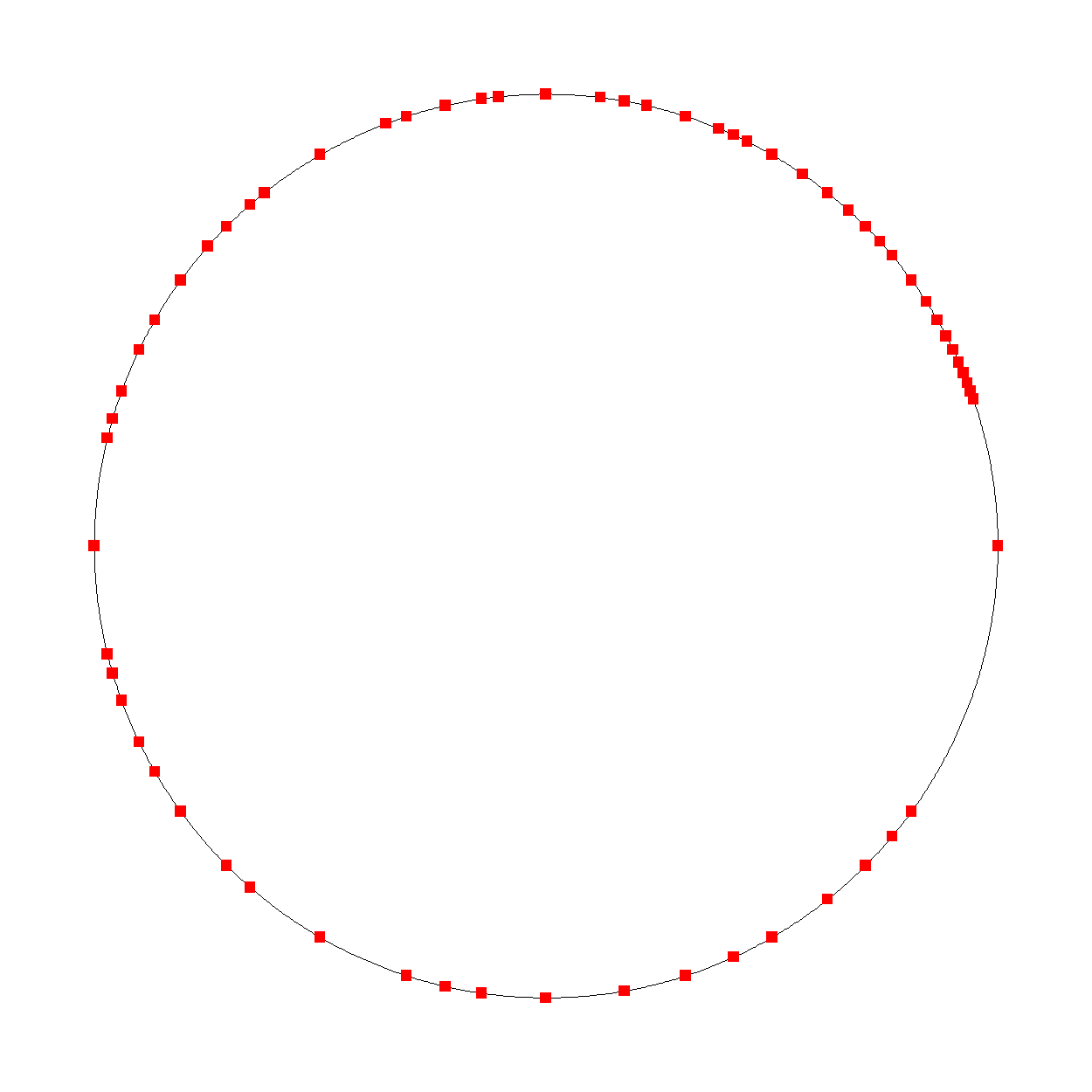 Fractions in the range [0, 1] the sum of the numerator and denominator of not more than 20. Made in the software package Mathematica.